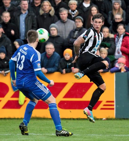 Gary Martin